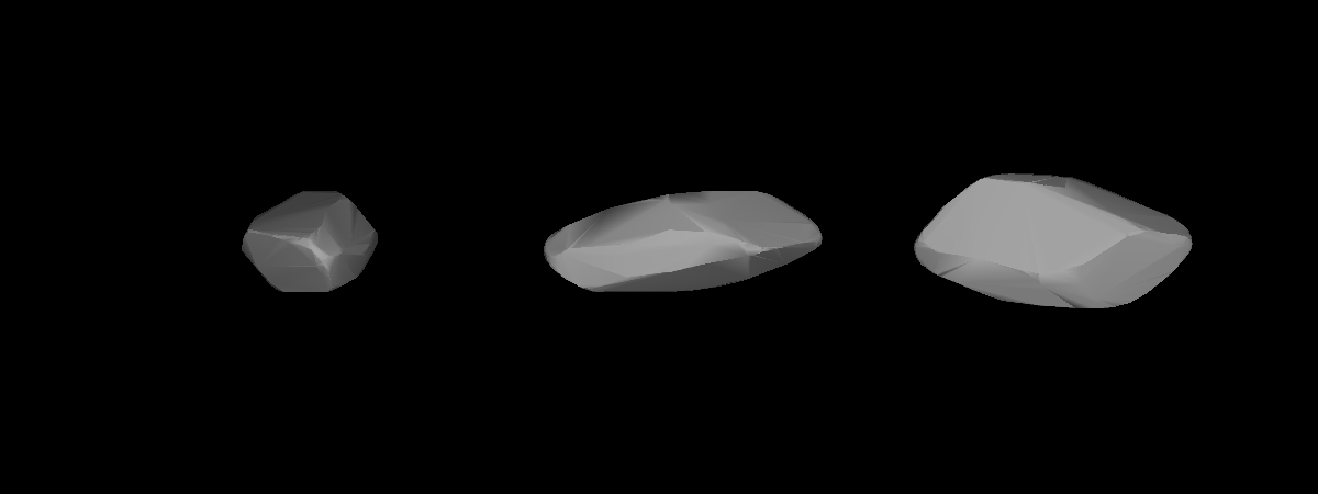 A three-dimensional model of 2094 Magnitka that was computed using light curve inversion techniques.